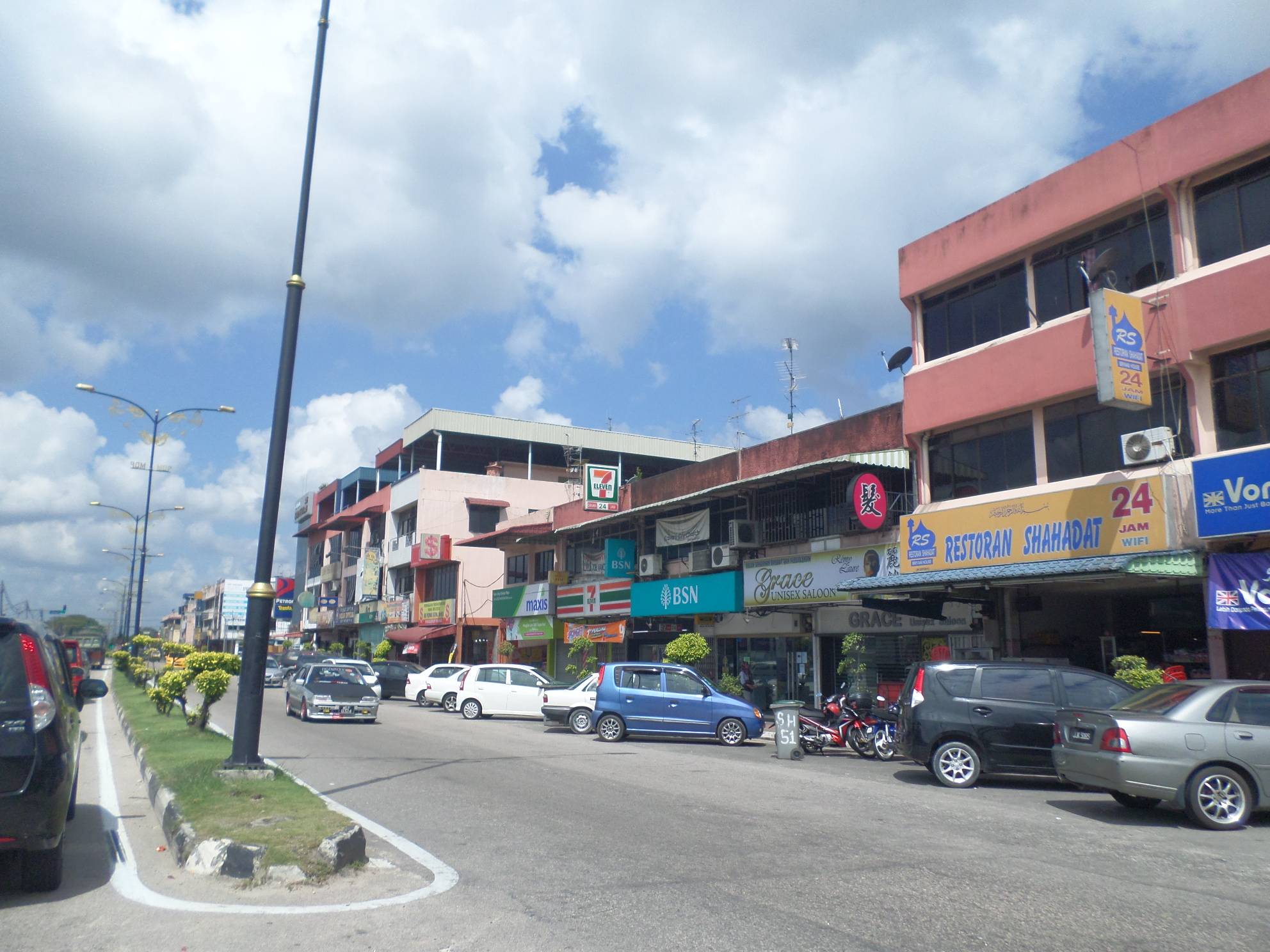 Pekan Nanas, Pontian, Johor, MalaysiaBahasa Melayu: Pekan Nanas, Pontian, Johor, Malaysia